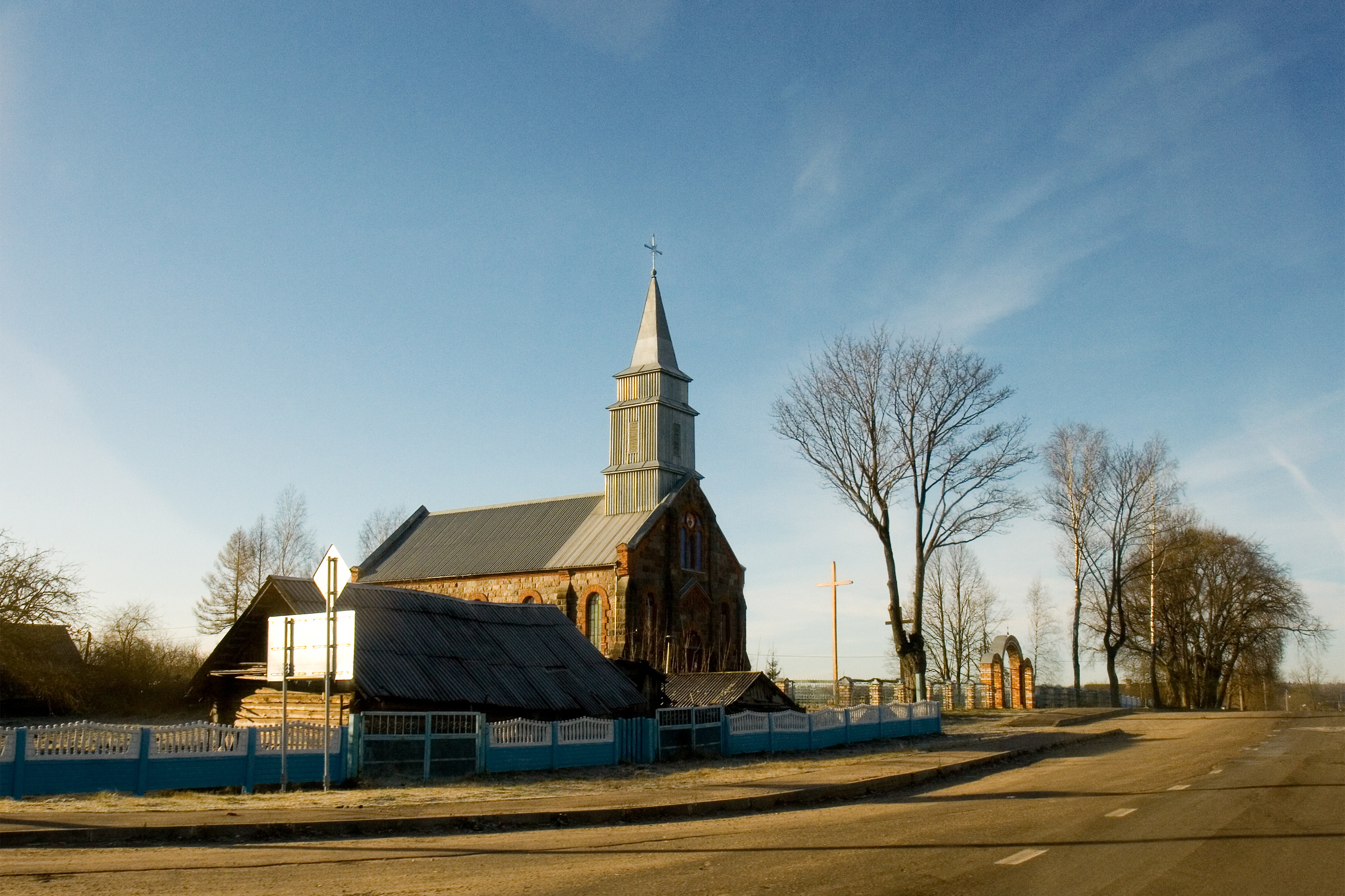 Catholic church of the Sacred Heart of Jesus, Illa, Minsk province, Belarus